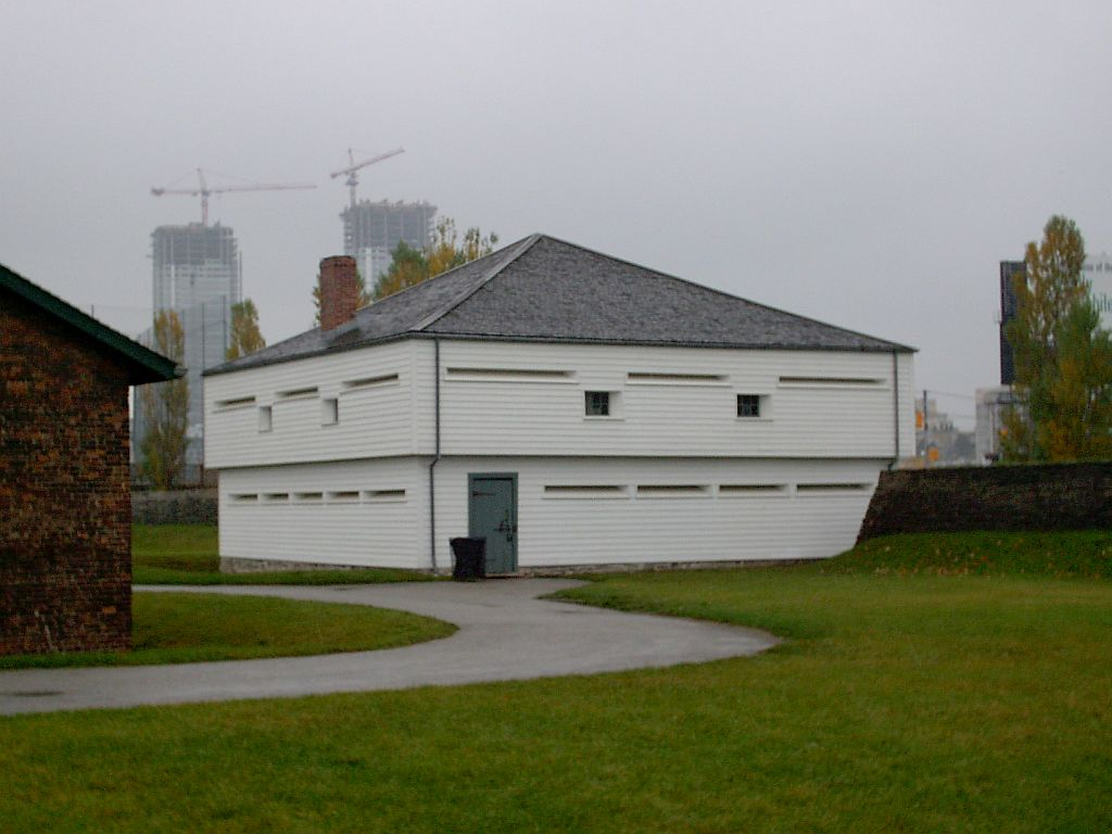 Taken by me, User:CannedLizard. Consider it copyleft.